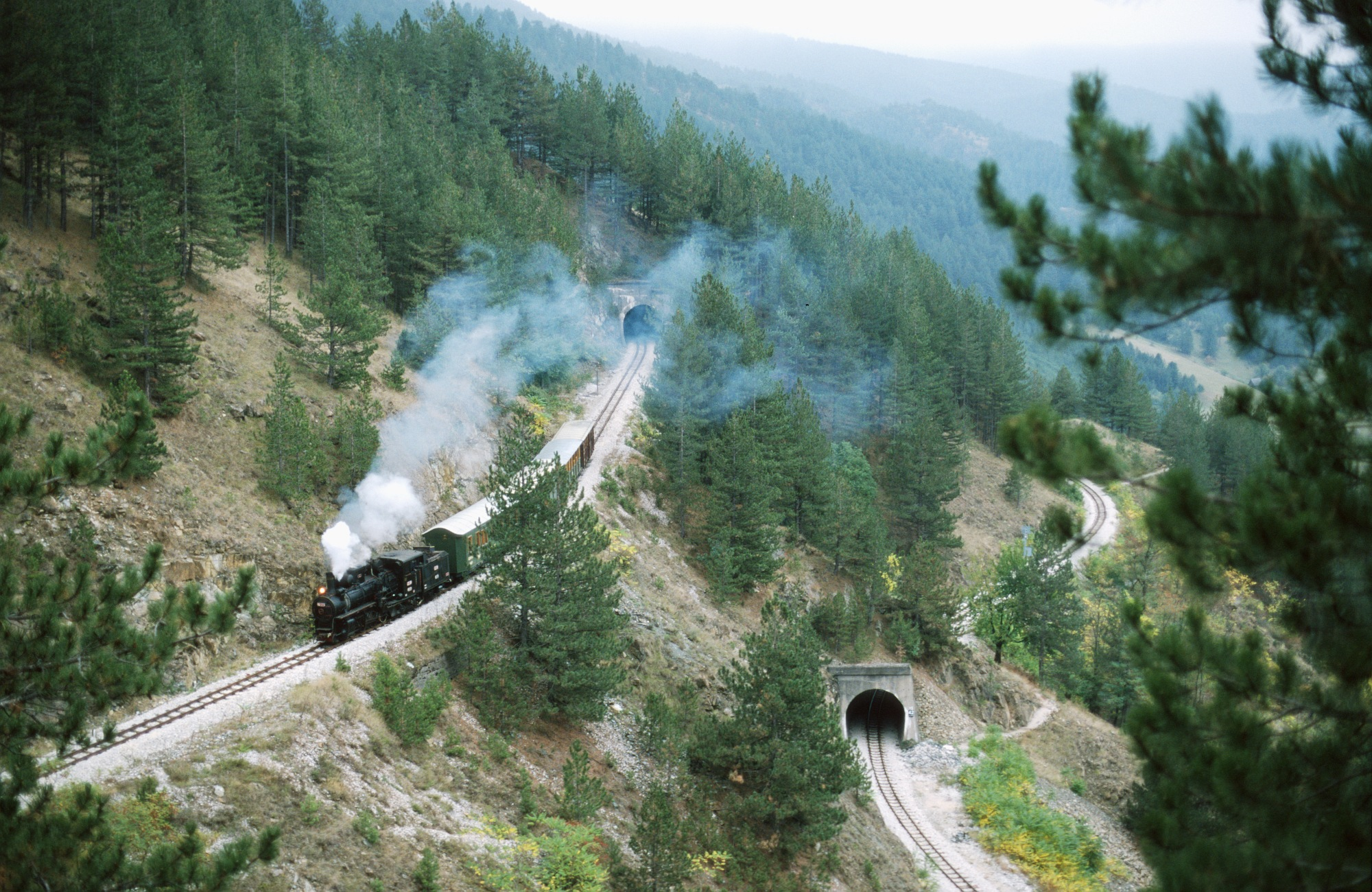 Passenger train on the Šarganska osmica heritage railway in Serbia. This picture was taken from a third level of trackbed above the two in the picture.